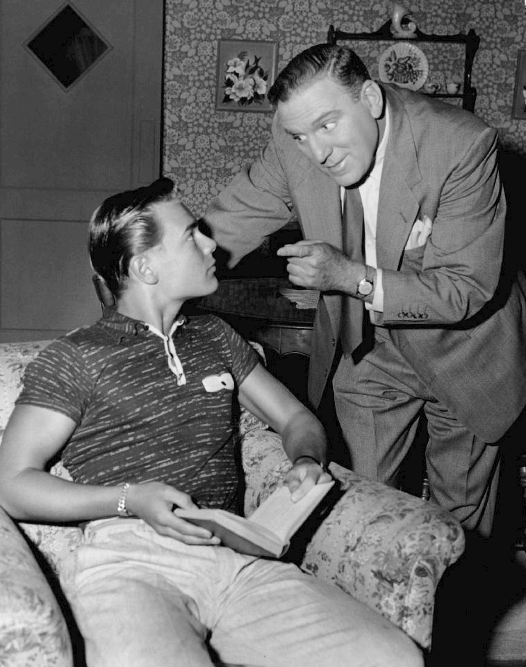 Photo of William Bendix as Chester Riley and Wesley Morgan as his son, Junior, from the television program The Life of Riley. In this episode, Junior decides to quit school in favor of a full-time job. His Dad doesn't agree and lectures his son about the importance of a good education.